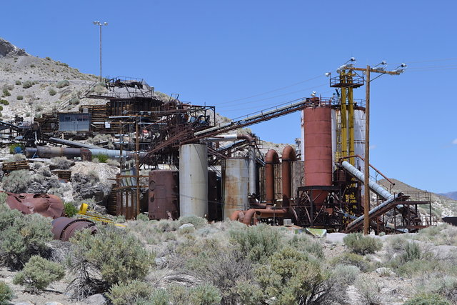 Perlite mine in the Owens Valley near Fish Springs.